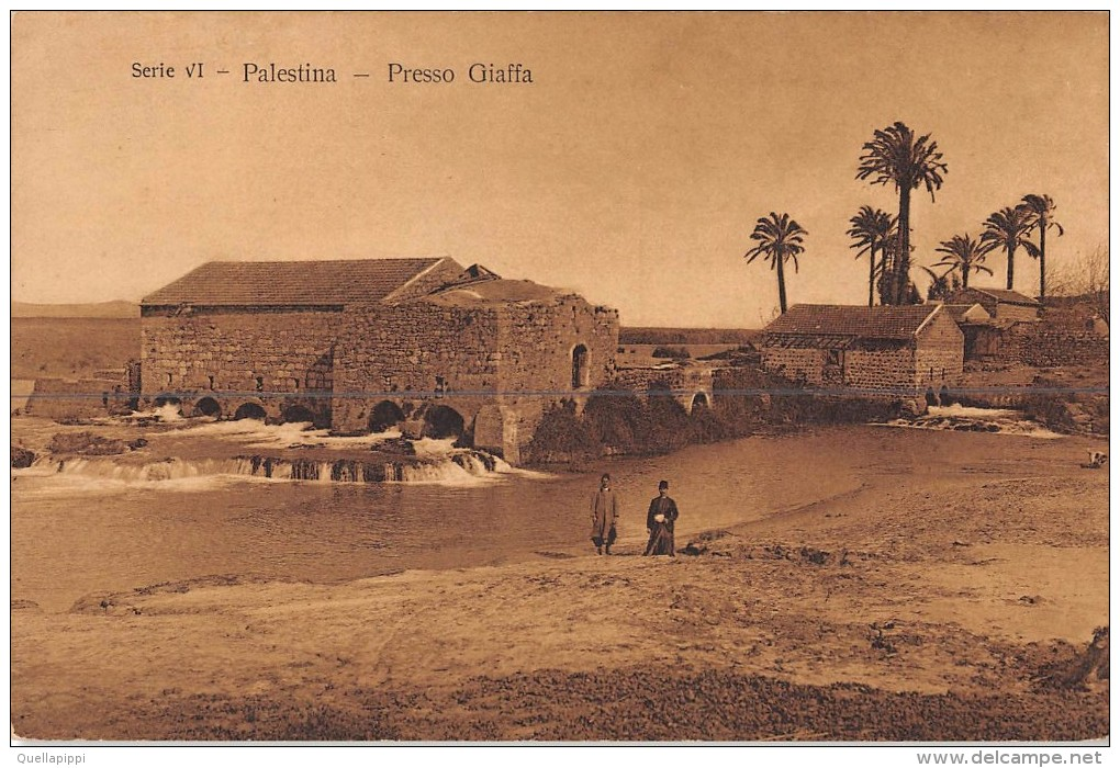 Garish village, Palestine